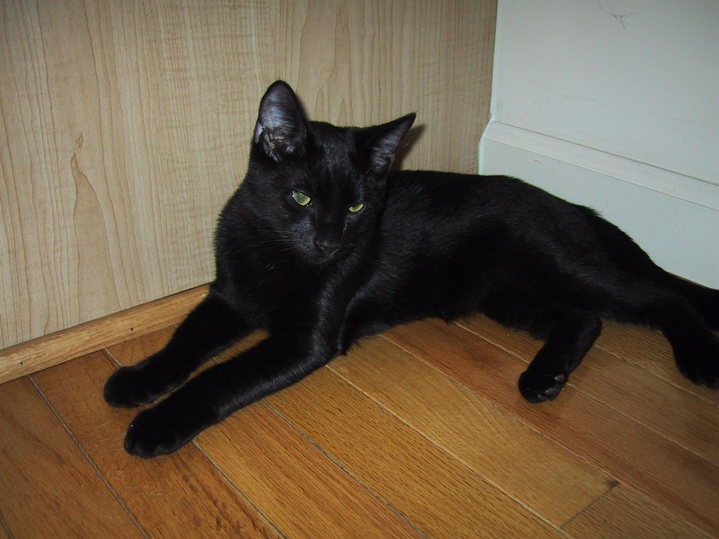 Photo of Bombay Black Cat Male (~3-5 months old)